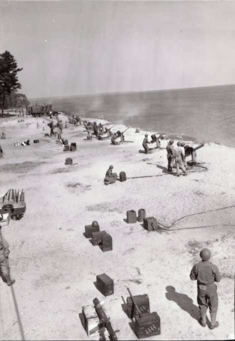 EAC Training at Poponessett Beach during World War II.